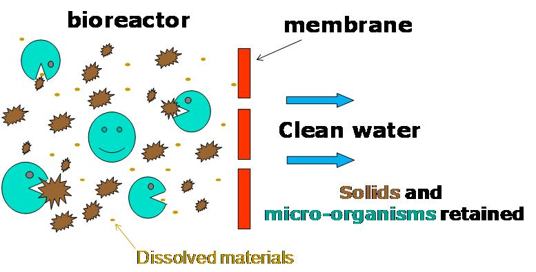 Author: Pierre Le Clech